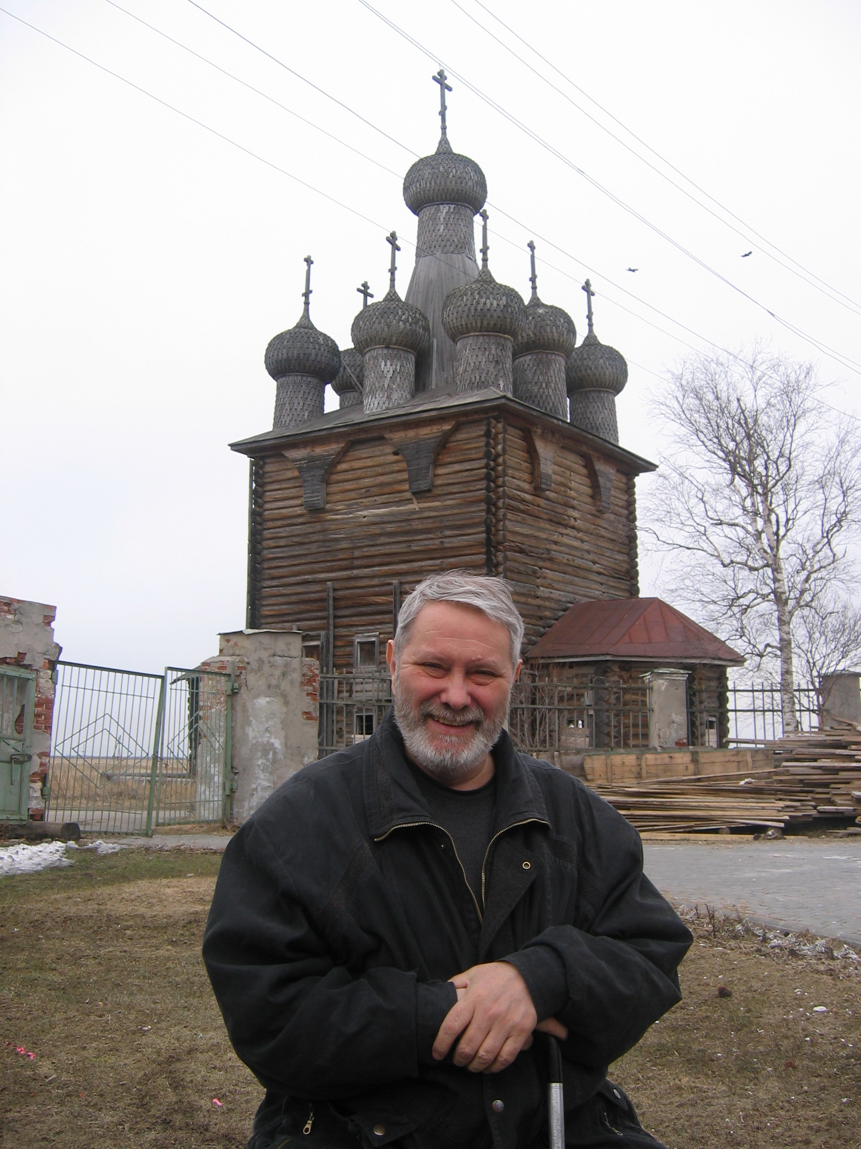 А. Krel in Zaostrovye, Arkhangelsk Region, Russia